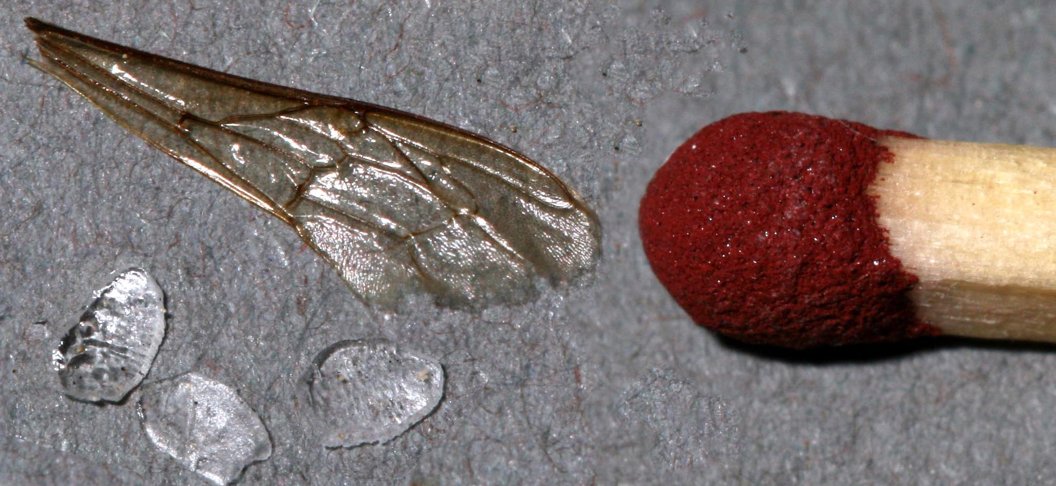 Examples of waste that falls to the floor of a beehive. The investigation of waste gives an indication of the health of bees. Here you can see from the waste in the middle row lost pollen packets of different plants, in the bottom row a bee wing, three freshly exuded wax scales (white in the beginning and almost transparent, as long as they are not used in construction of honeycombs), and a varroa mite.